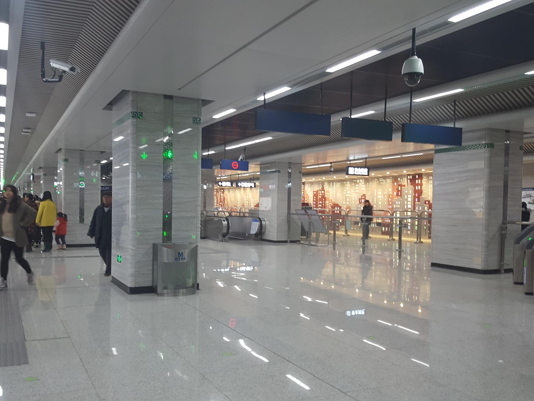 Concourse of Changqinghuayuan Station, Wuhan Metro Line 6